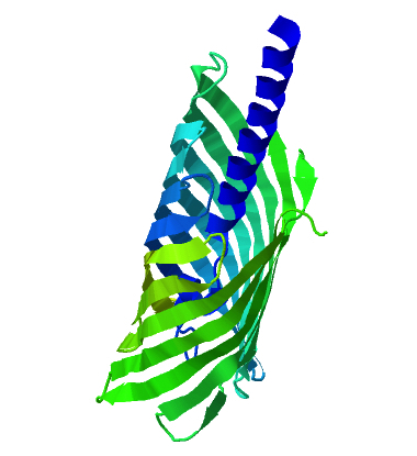 Integral membrane domain of autotransporter Hbp